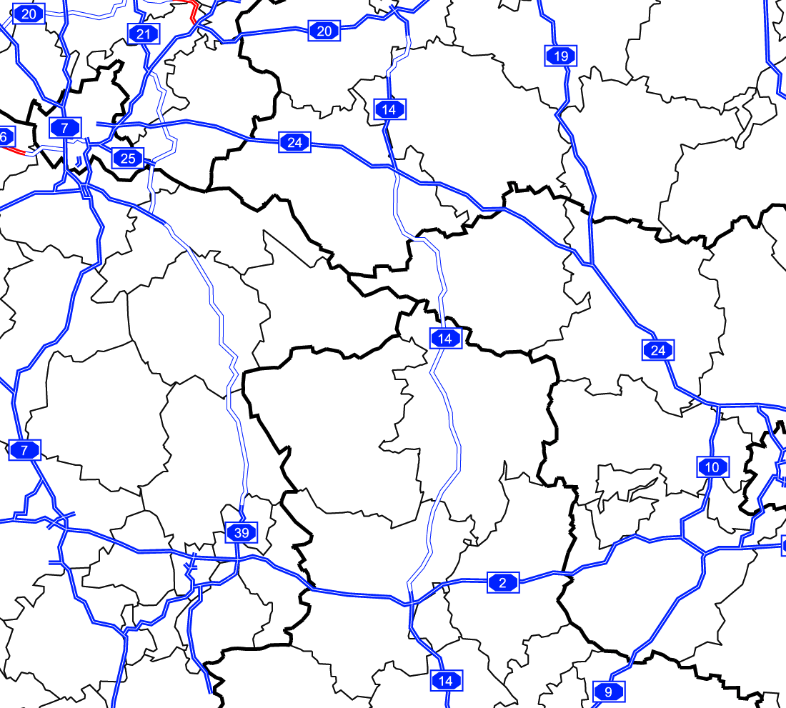 Planned German federal highways 14 and 39 in context (Hamburg, Berlin, Hanover) with county and state borders